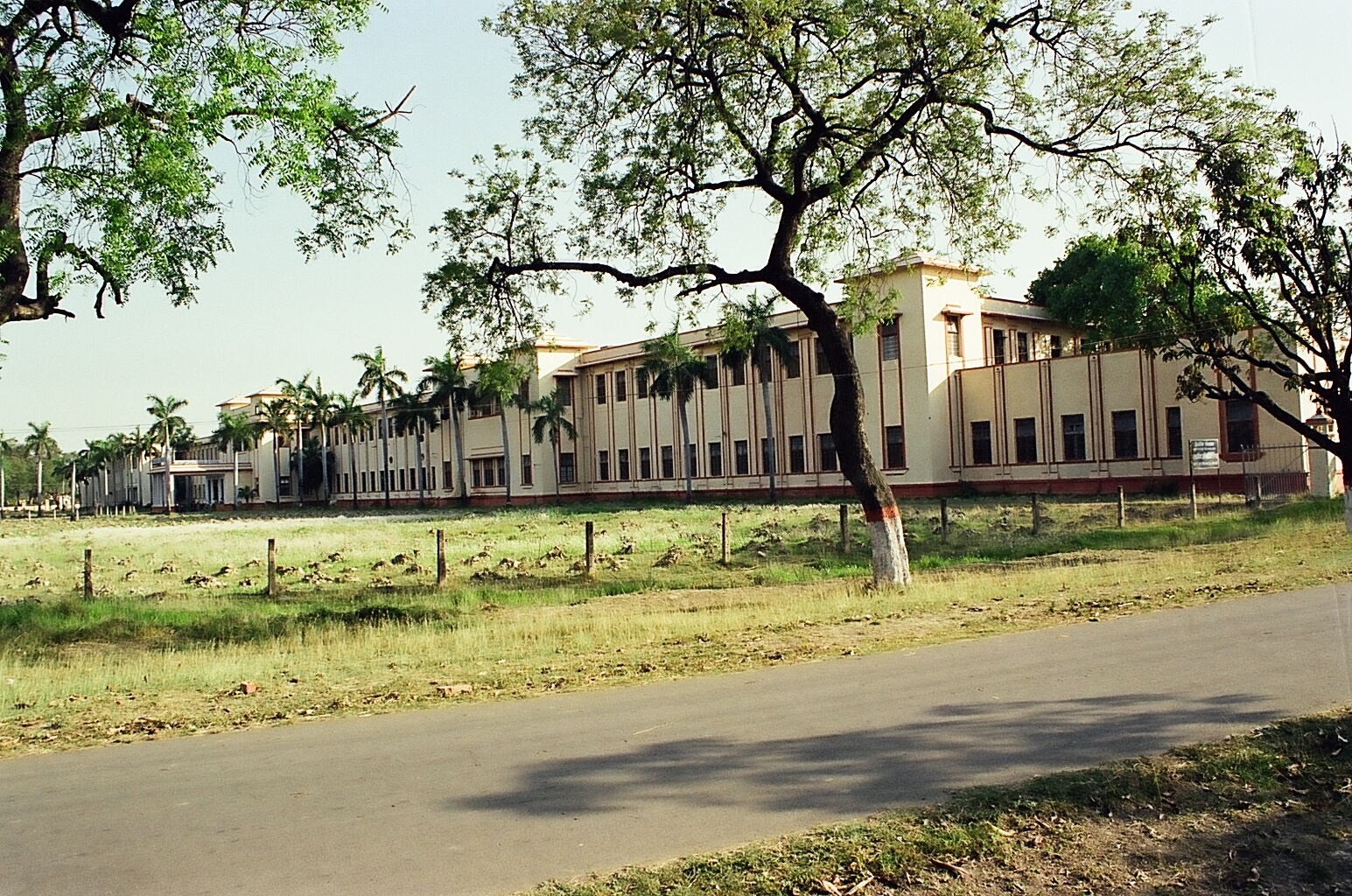 Chemical Engineering Department